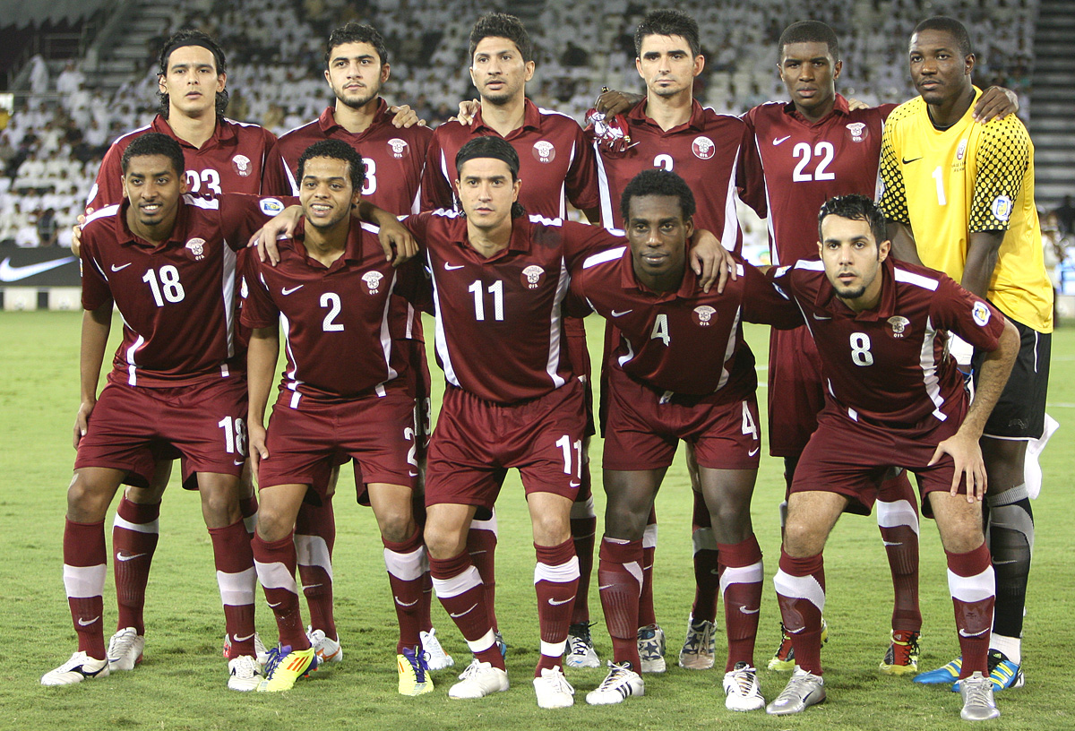 The Qatar national players pose for the team picture prior to their 2014 FIFA World Cup qualification match against Iran at the Al Sadd Stadium.